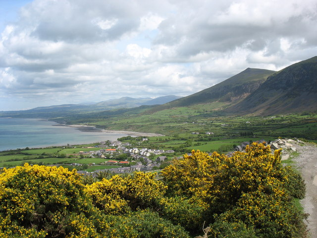 The Village of Trefor from the Quarry.